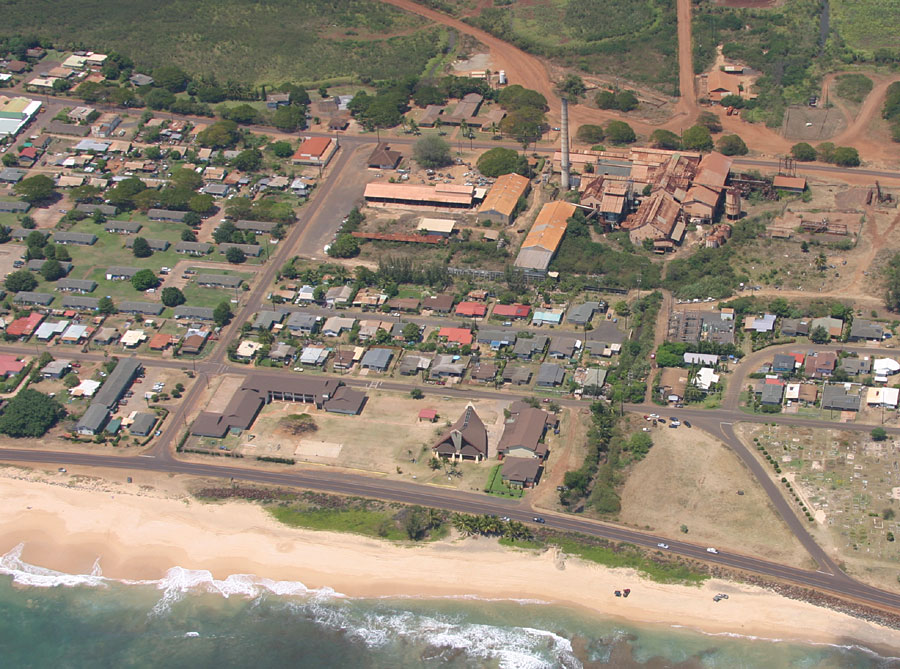 Photo by Christopher P. Becker. Photo taken on Sunday, May 1, 2005.